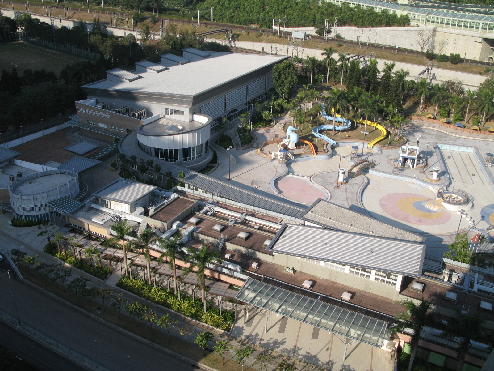 Hin Tin Swimming Pool Overview 顯田游泳池